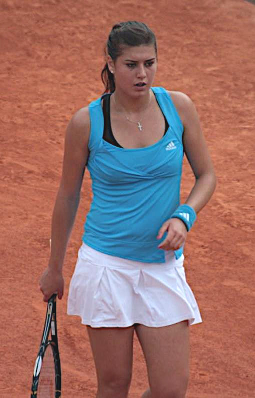 Sorana Cîrstea at 2009 Roland Garros, Paris, France